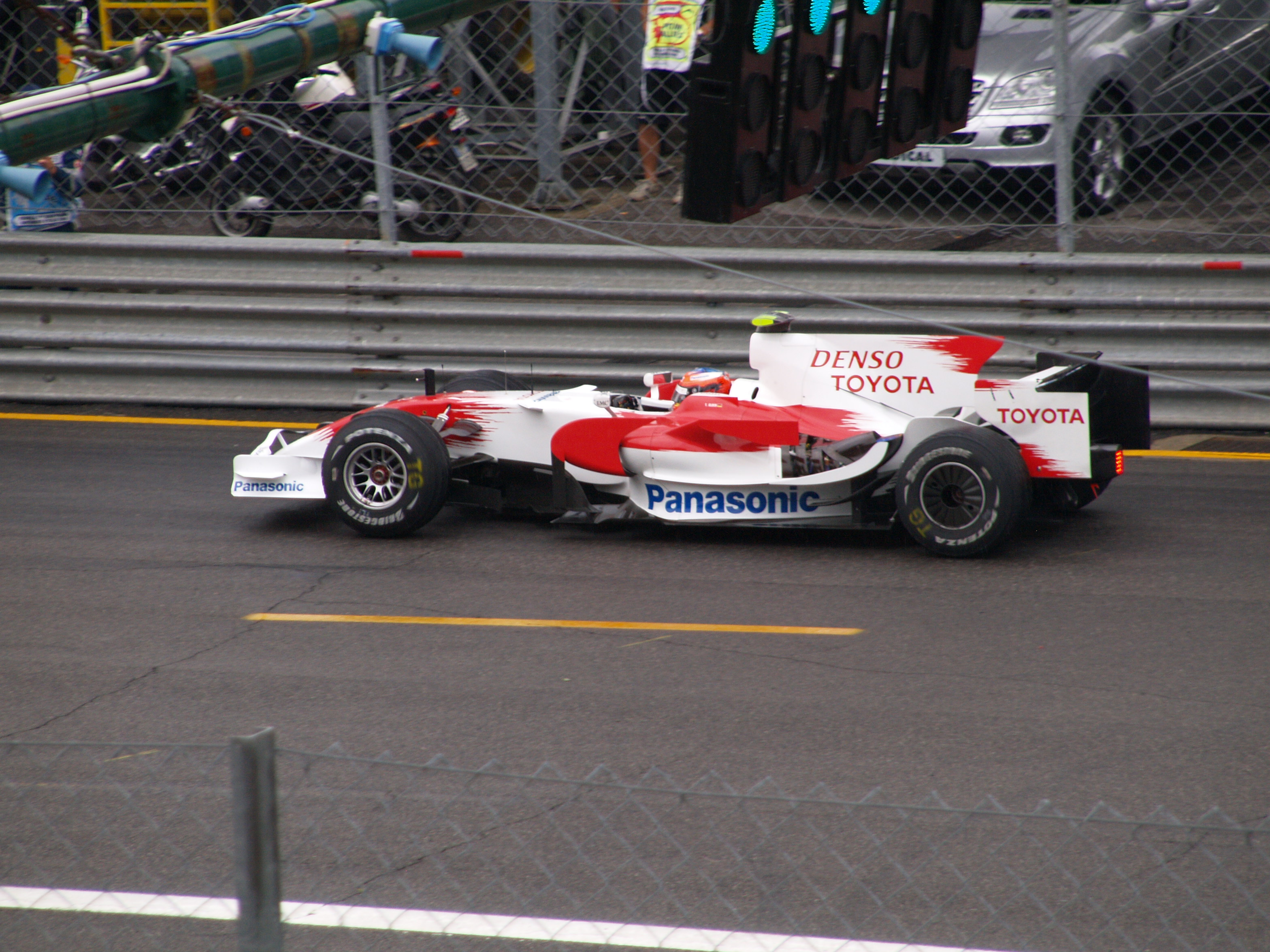 Timo Glock at 2008 Italian Grand Prix